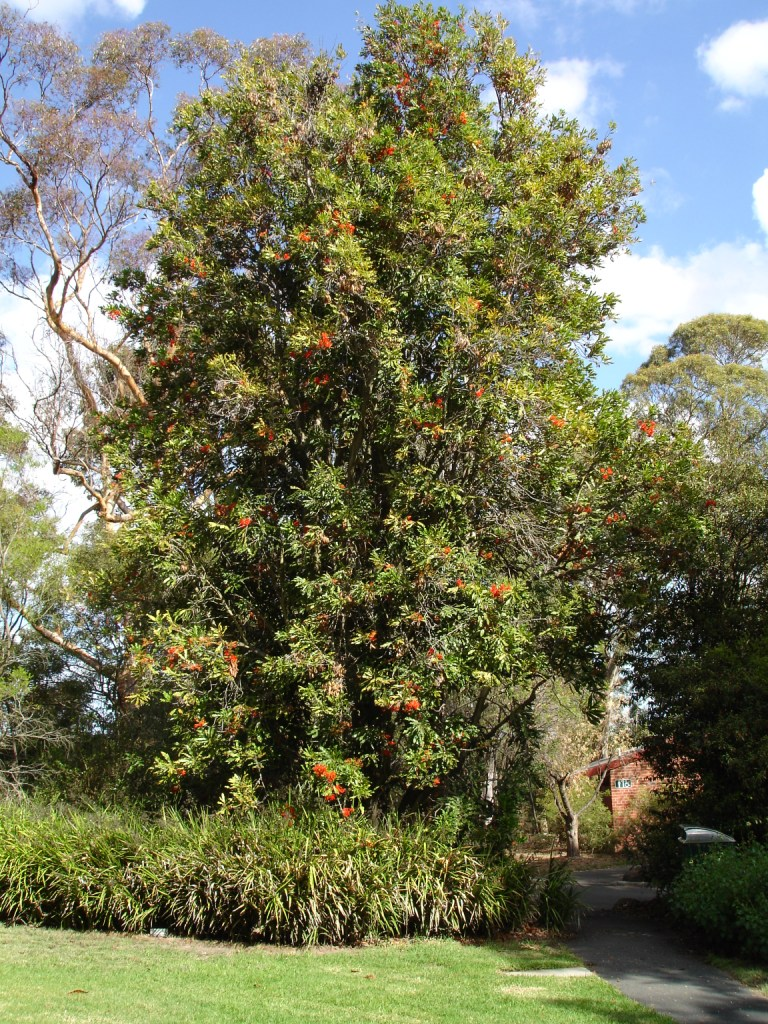 Taken at Maranoa Gardens HelloMojo 13:33, 8 April 2007 (UTC)